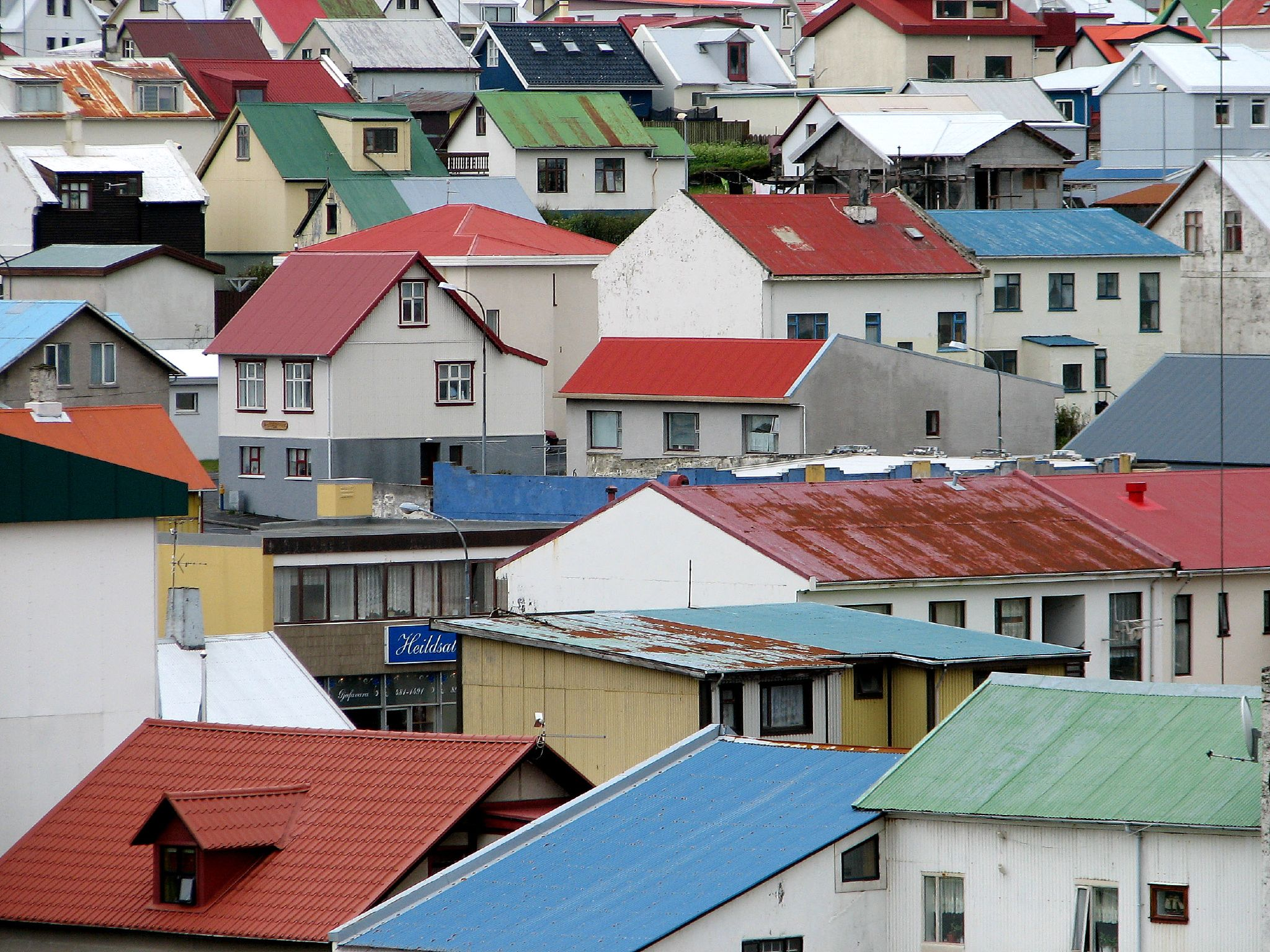 Houses and roofs on the island of Heimaey, Iceland.